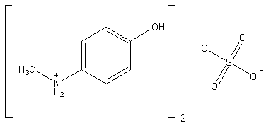 Structural formula of the chemical compound 4-(methylamino)phenol sulfate, also called Metol, Temal or Photo-Rex. Used in common formulations of black-and-white developers for photographic film and photographic paper.